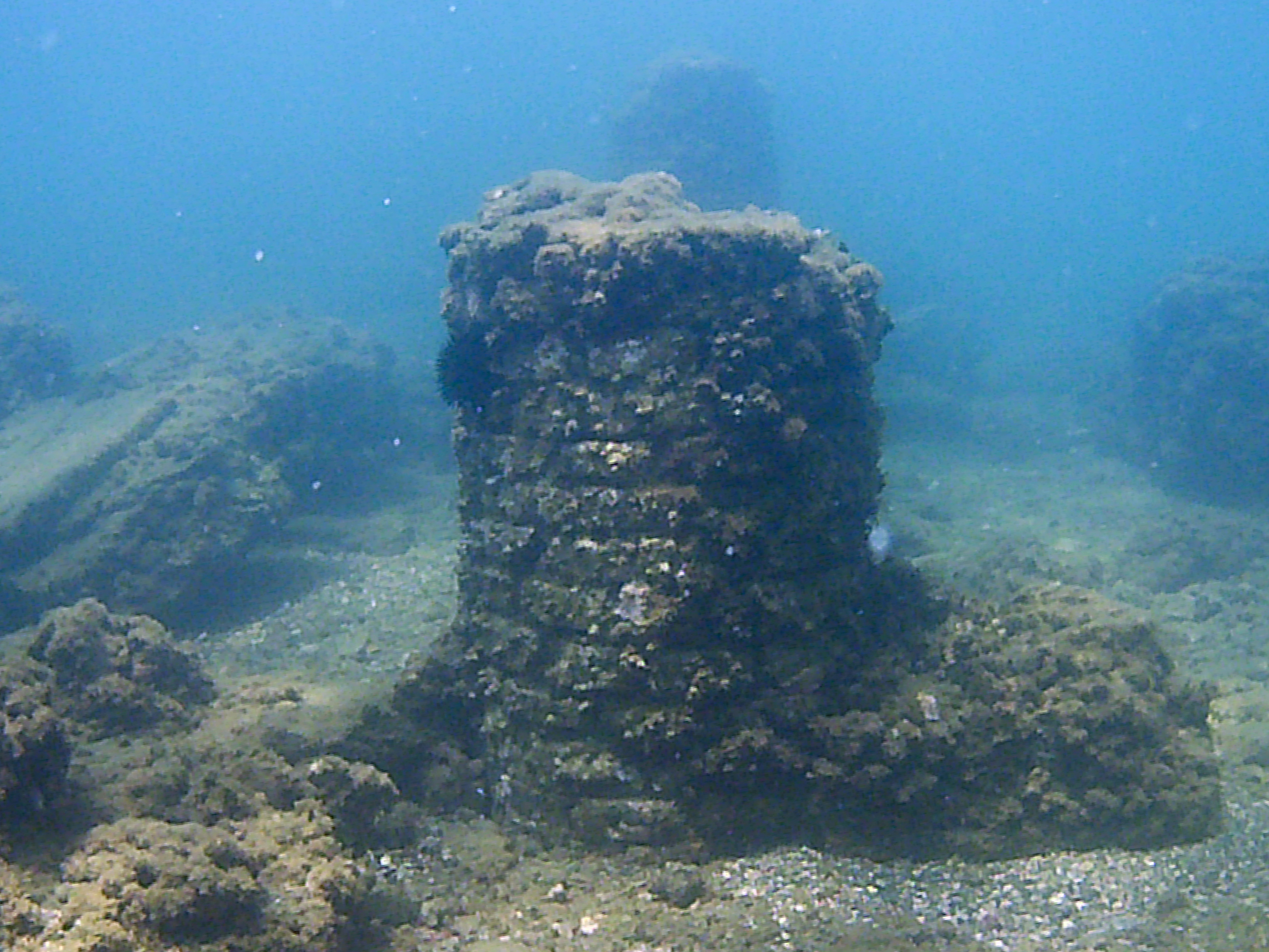 Portus Julius' column. Underwater Archaeological Park of Baiae